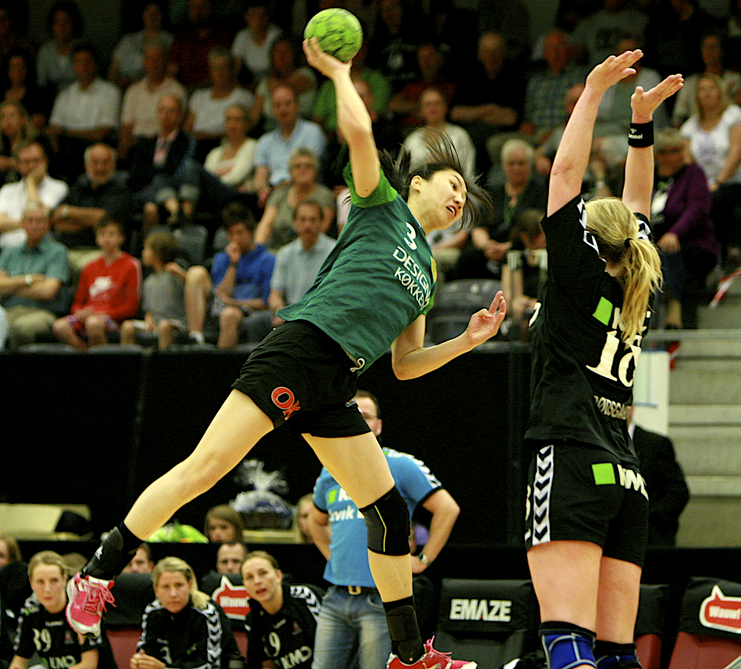 Chao Zhai from Viborg HK.